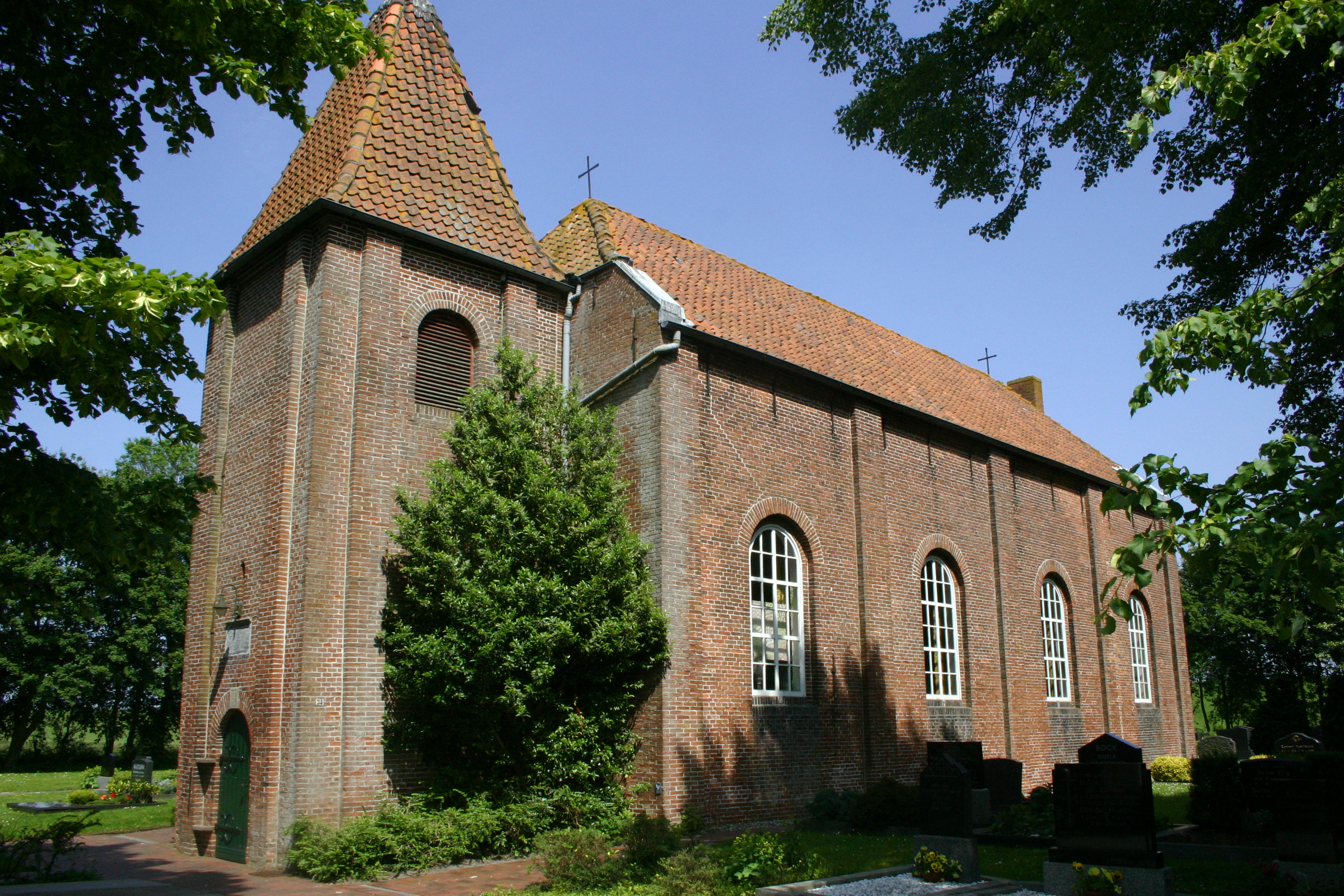 Historic church in Kirchborgum, district of Leer, East Frisia, Germany